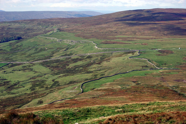 Tor Dike Tor Dike is an earthwork north of Kettlewell with ditch and rampart constructed in the limestone. Tor Dike was built by Iron Age tribes, probably 1st century AD, to protect themselves from the invading Romans. In this picture the Dike follows the line of the wall and crosses the road coming up from Kettlwell on its way to Wensleydale. To the right the slopes of Buckden Pike rise gradually.